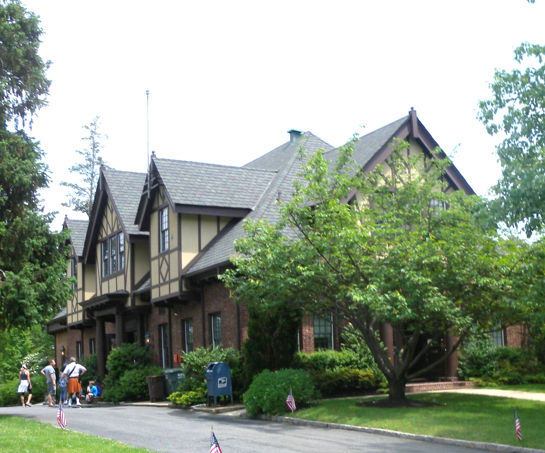 Looking north at Plandome Village Hall on a partly sunny midday.